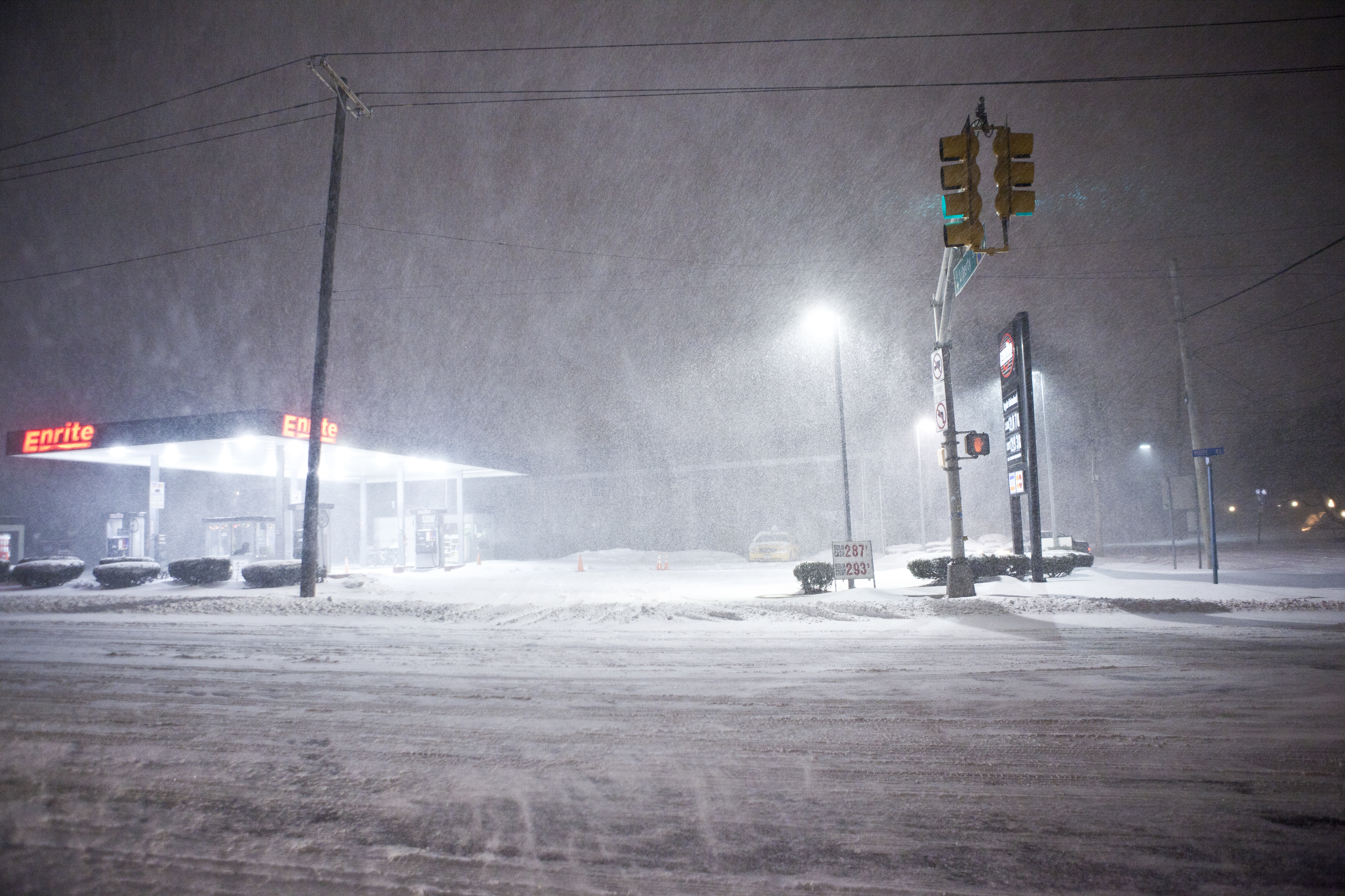 December 26, 2010 north east blizzard passing through Route 46 in Little Ferry, New Jersey. Poor visibility with heavy winds.